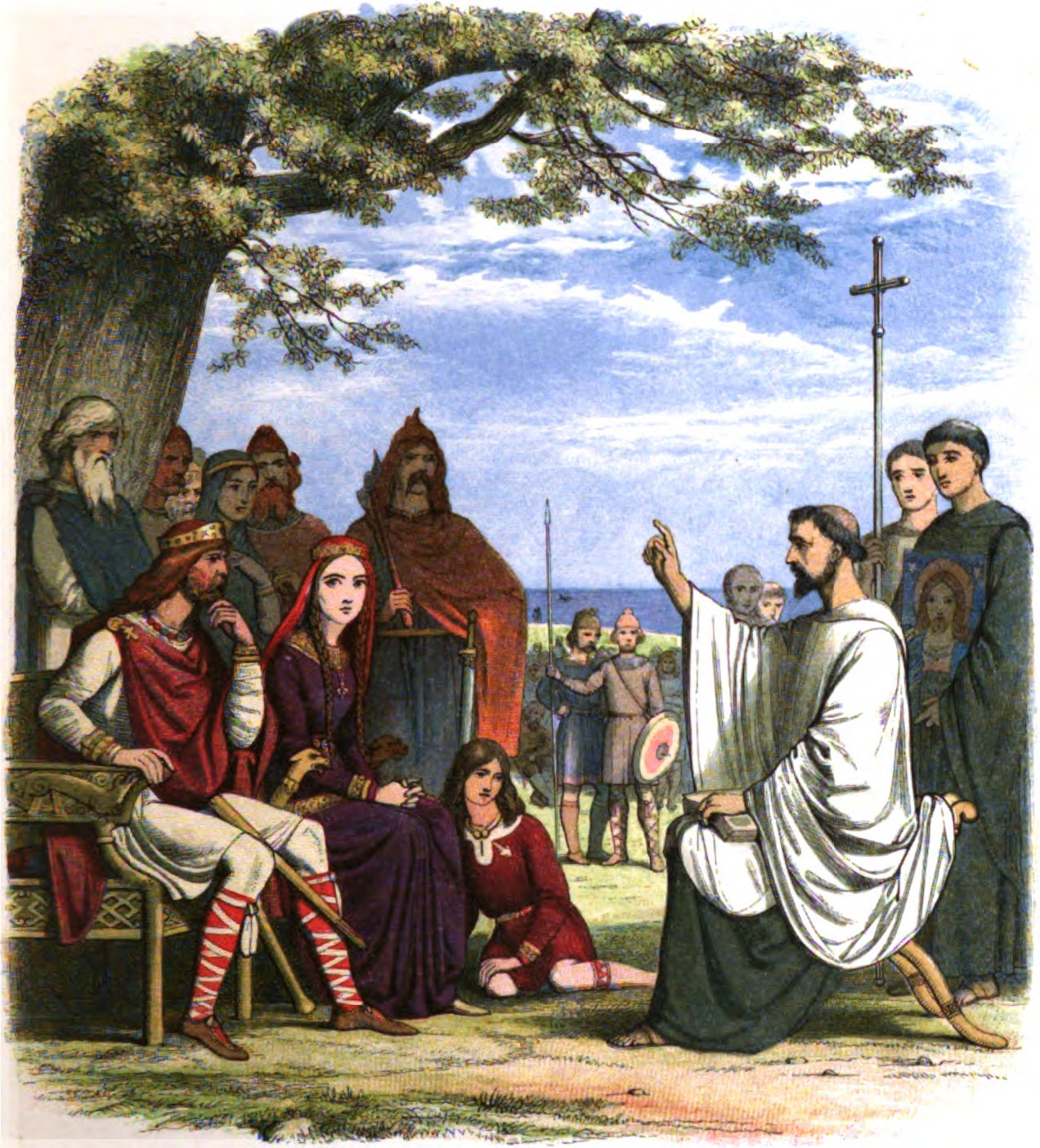 Augustine of Canterbury preaches to Æthelberht of Kent